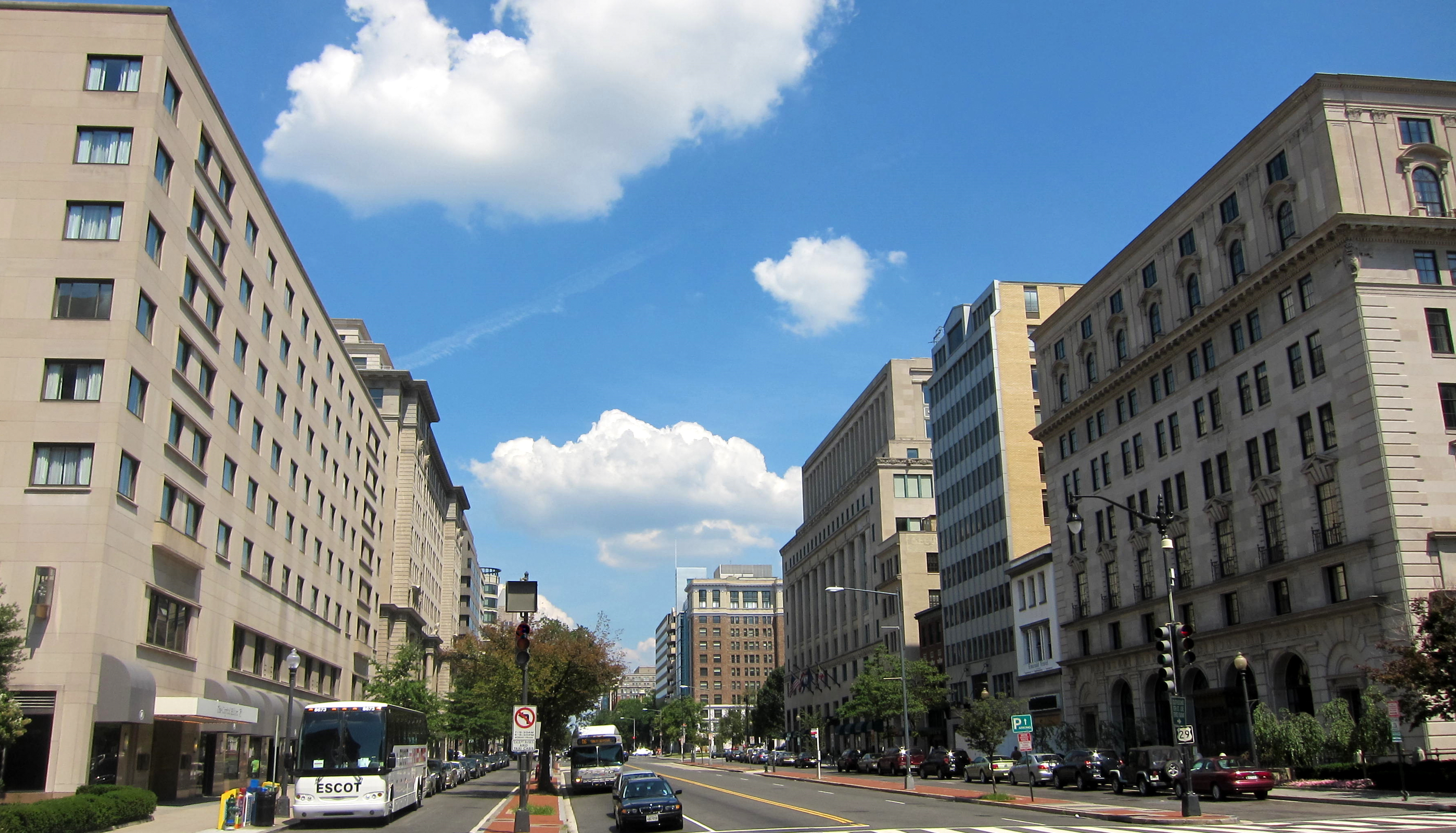 Facing east on the 1500 block of K Street, N.W., (intersection of 16th Street and K Streets) in downtown Washington, D.C.